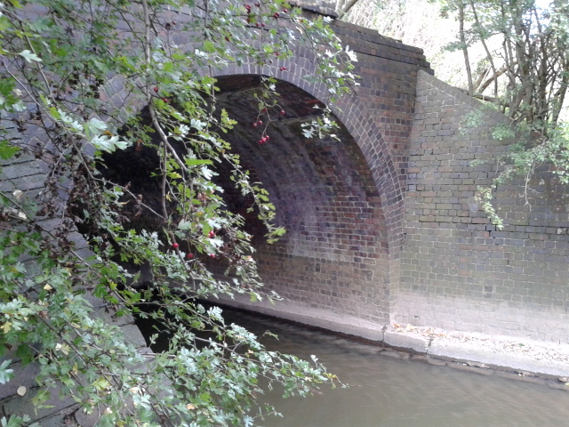 Bridge over the River Ise on the abandoned Kettering, Thrapston and Huntingdon Railway. Located in Barton Seagrave.